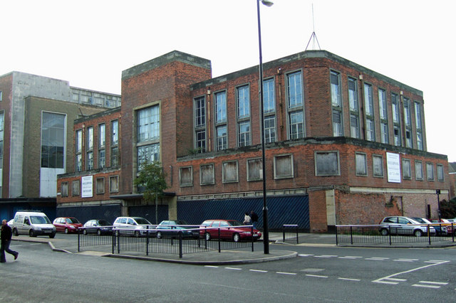 Boarded-up Building on Bond Street, Hull This building on Bond Street appears to have been boarded-up for some years. A Google search finds a plan to build a 55m 18 storey residential high-rise, apparently on this site